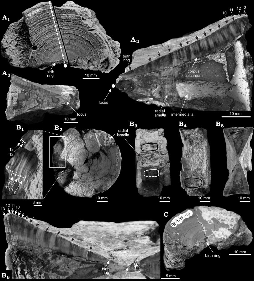 Fig. 5. Centra of Cardabiodon ricki Siverson, 1999 from uppermost 10 cm of the Gearle Siltstone (middle Cenomanian), CY Creek, Giralia Range, Western Australia. A. Precaudal centrum, WAM 96.4.45.128. Face of the corpus calcareum (A1) showing line of section (black line) and transect with points of measurement (white line and circles), large filled circle represents focus, left half of the section centrum correseponds to A2 , right half of the centrum corresponds to A3 . “Hemisected” view of centrum (A2) showing the number of bands, angle of the section does not intersect the focus as it was missing from the originally incomplete centrum, the point of the focus occurs in -z space (behind the plain of the page). Opposing view showing focus (A3). B. Precaudal centrum, WAM 96.3.175.1. Anterior view of corpus calcareum with surface removed to show bands (B1); centrum (B2); dorsal view of centrum (B3), ovals show outline and position of articular foramina for the neural arch (anterior to left); lateral view of centrum (B4) oval outlines rib articular foramen (anterior to left); hemisected section of centrum (B5) (anterior to left); enlarged, hemisected view (B6) showing bands. C. Caudal centrum, WAM 96.4.45.110 (oblique angle), anterior view showing birth ring.